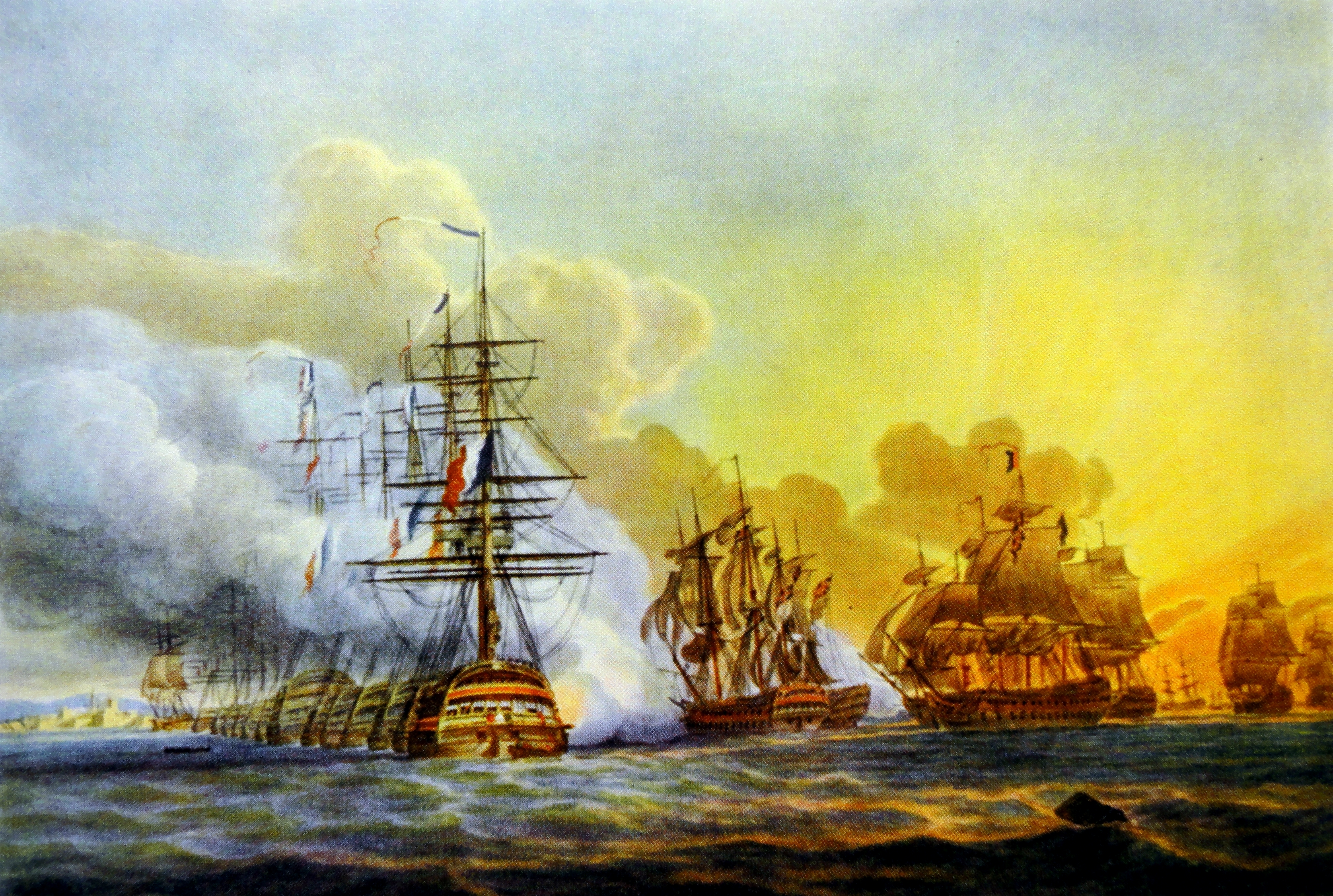 Battle of Abukir France against England.